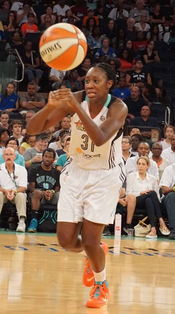 Tina Charles at 2 August 2015 game